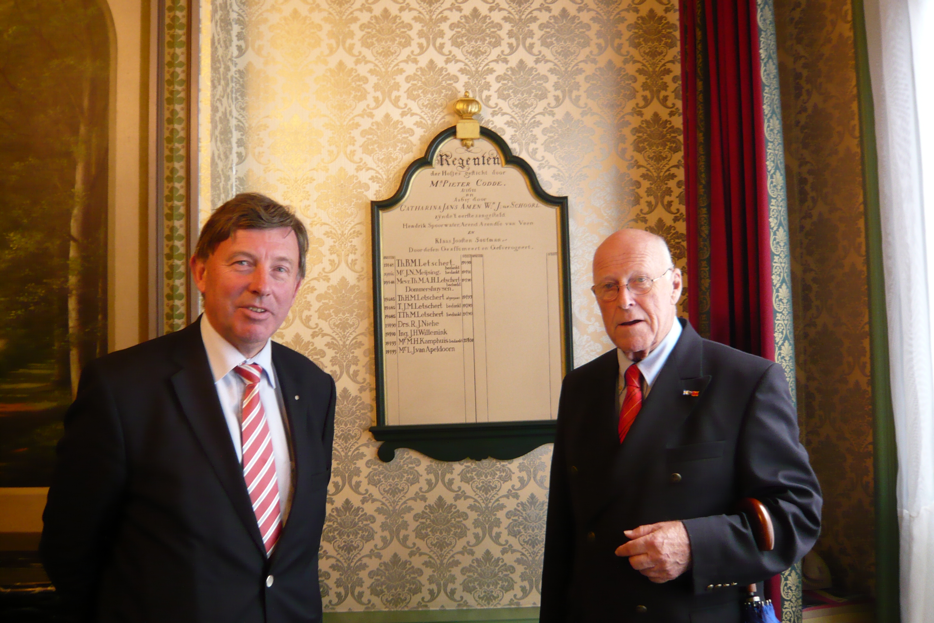 Regents Drs. R. J. Niehe and Ing. J.H. Willemink pose in front of the Regents board listing the names of all regents. This is the second board, the first board had no room left for the names. Mr. Niehe is wearing a Dutch royal "Oranje Nassau" decoration combined with a Catholic decoration for service to the community and Catholic church.